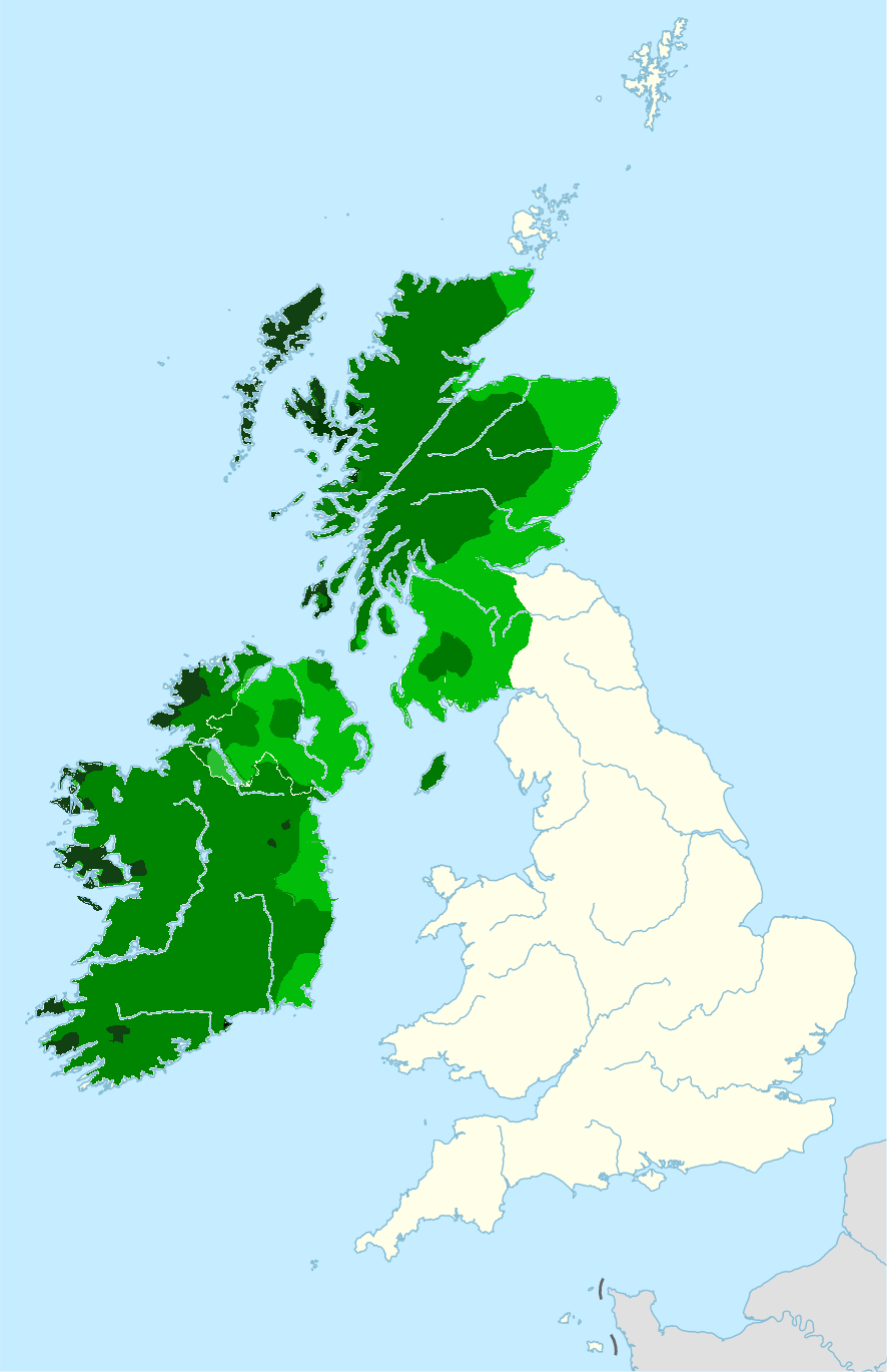 The lightest green represents the maximum expansion of the Gaelic language and culture (c. 1000 CE), the middle shade shows its reach c. 1700 CE, and the darkest color shows areas that are Gaelic-speaking in the present day.